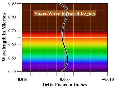 Picture of superachromatic lens chromatic focal shift